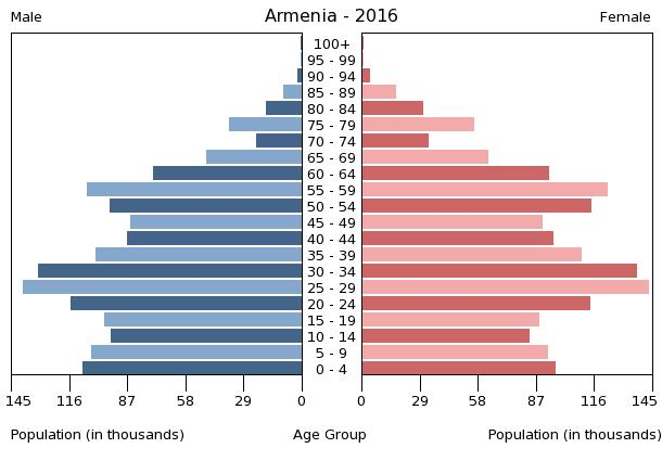 The population pyramid of Armenia illustrates the age and sex structure of population and may provide insights about political and social stability, as well as economic development. The population is distributed along the horizontal axis, with males shown on the left and females on the right. The male and female populations are broken down into 5-year age groups represented as horizontal bars along the vertical axis, with the youngest age groups at the bottom and the oldest at the top. The shape of the population pyramid gradually evolves over time based on fertility, mortality, and international migration trends.